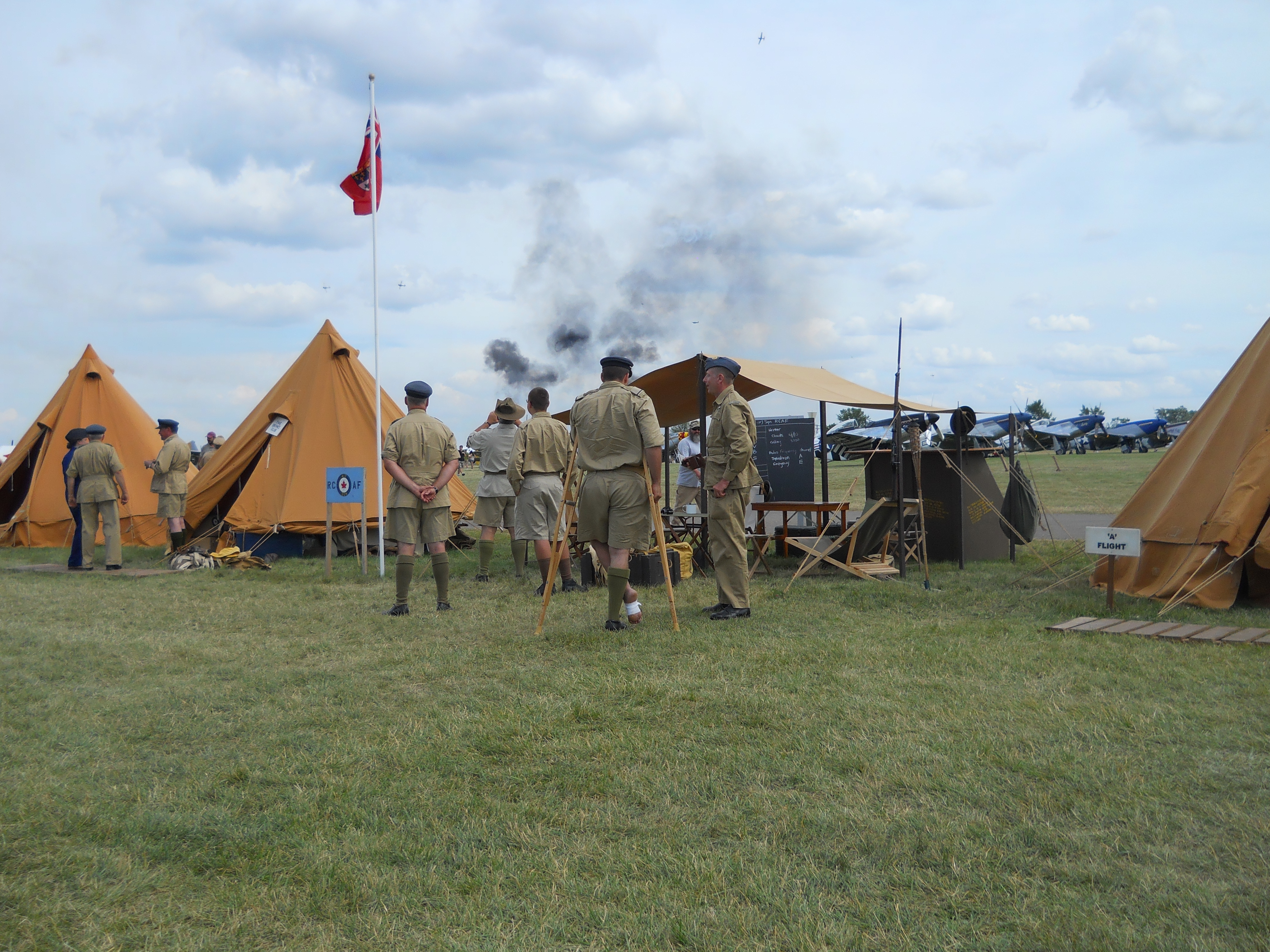 Reenactment of RCAF Gunnery Practice. England, 1942. AirVenture 2013, Oshkosh, WI